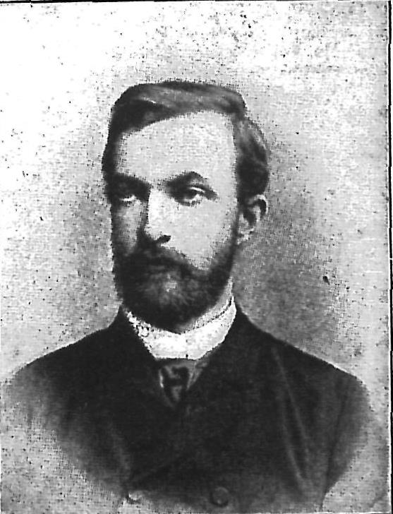 Young ban of Croatia, Nikola Tomašić